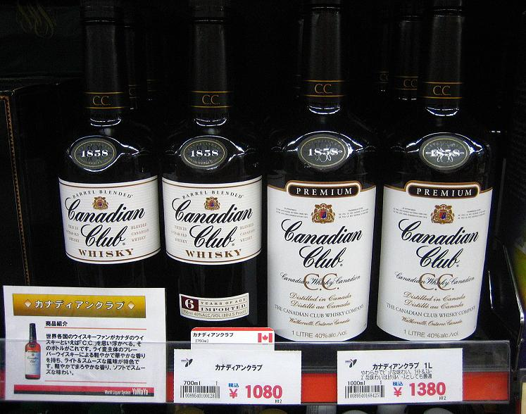 Bottles of Canadian Club whisky for sale in Fukushima Prefecture, Japan. Picture was taken with a Canon Power Shot SD450 Digital Elph camera and modified using a Paint Shop program on a laptop computer.